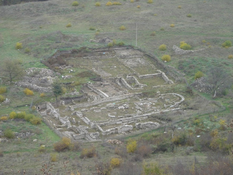 Archaeological site, supposedly of ancient city Tranupara, near Konjuh, Macedonia